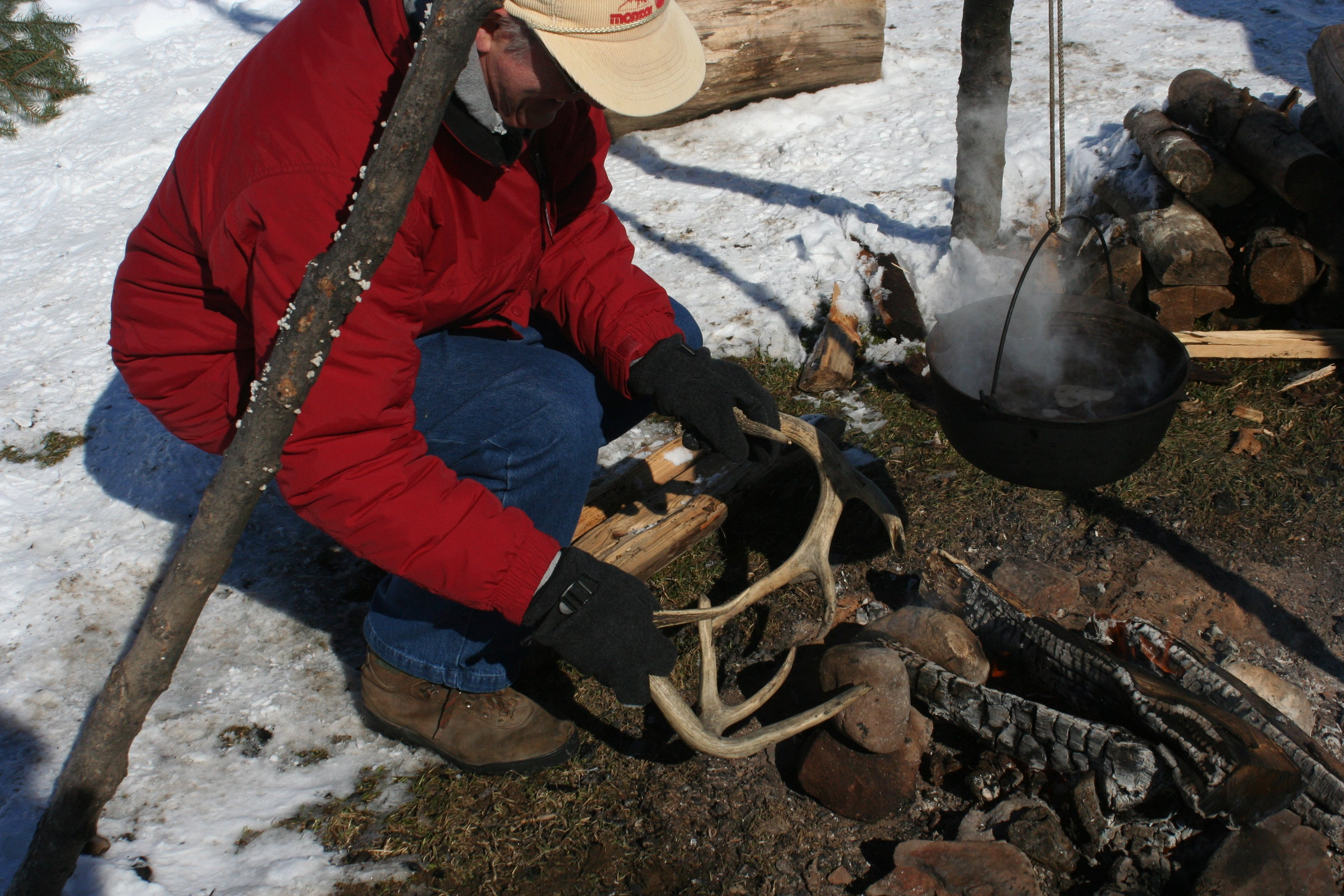 Demonstration of Native American technique of making maple sugar - stones are heated in a fire, then placed (using deer antlers for tongs) in a hollowed-out log containing maple sap, which gradually evaporates the water and leaves the sugar. Demonstration done at the "Maple Harvest Festival", Beaver Meadow Audubon Center, North Java, NY.